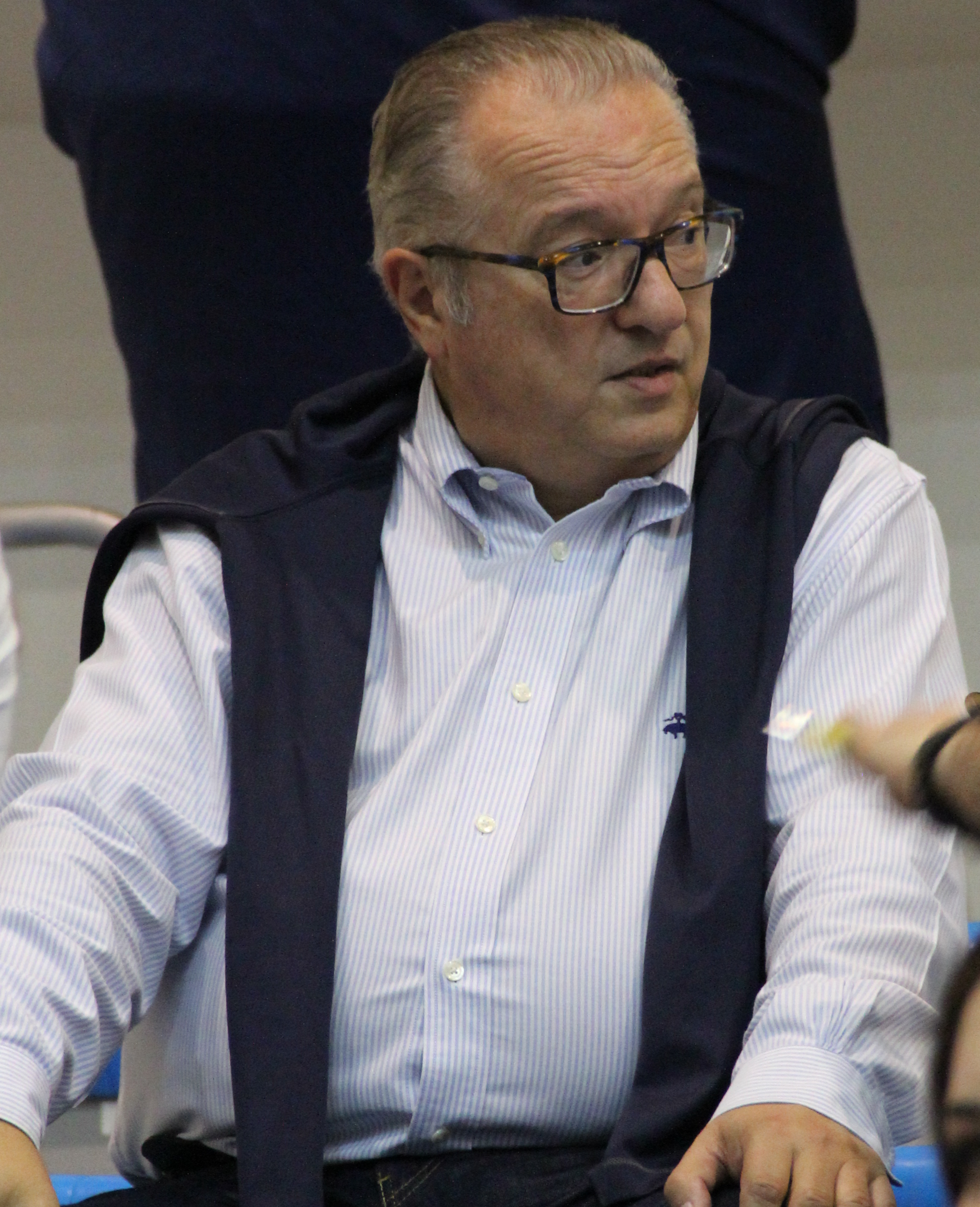 Maurizio Gherardini Fenerbahçe Basketball 20190923